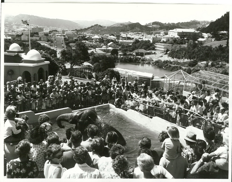 Images from NZ Archives Flickr albums Images uploaded in collaboration between WMUK and the University of Edinburgh